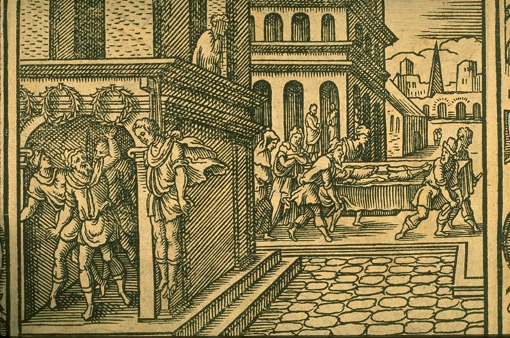 Iphis and Anaxarete. Engraving by Virgil Solis for Ovid's Metamorphoses Book XIV, 698-764. Francfurt 1581, fol. 186 r., image 14.